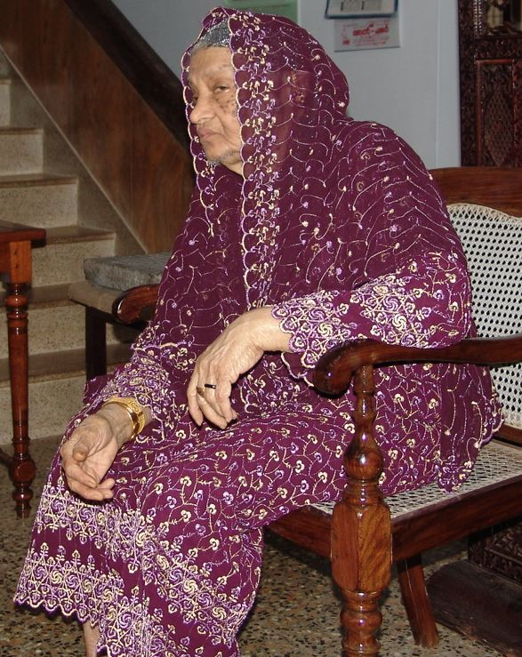 Sulthana Arakkal Ayisha Muthu Beevi (Ruled 1998-2006 ) (Photo by Ziyad Arakkal Adiraja) Present Arrakal Beevi Is Sulthana Aysha alias Sainaba Beevi..She was sworn in as Arakkal Beevi on July 2006..after the death of Sulthana Aysha beevi..The present Arakkal Beevi is Settled down in Tellicherry With her Daughter Saheeda Adi Raja.